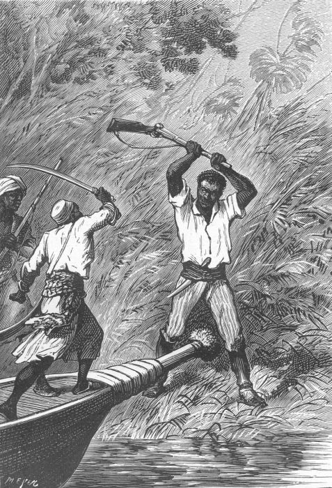 An ilustration from "Dick Sand, A Captain at Fifteen" by Jules Verne painted by Henri Meyer.